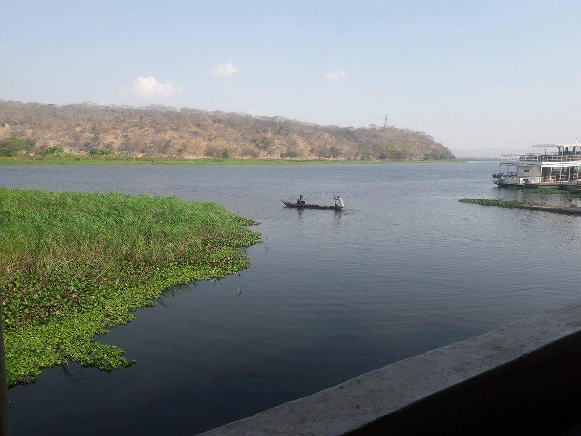 Photo of fishermen in Lusaka , Zambia casting their net. This was taken at the Kafue river in zambia. This is an image of "African people at work" from Zambia